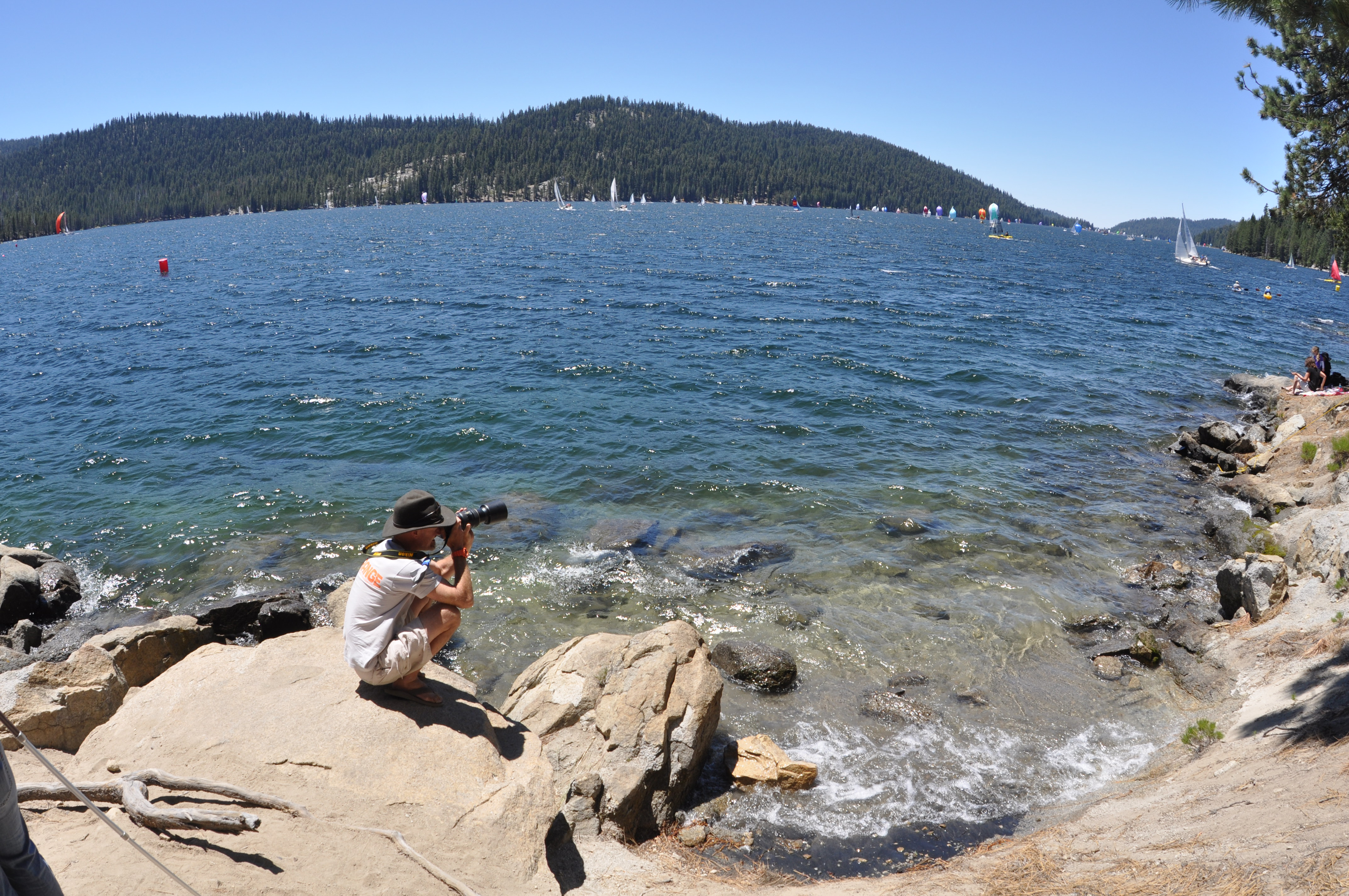 Photographer takes aim at the High Sierra Regatta on Huntington Lake.